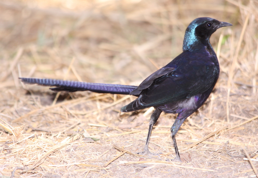 Meves's Glossy-starling (Lamprotornis mevesii), Mapungubwe National Park, Limpopo, South Africa.